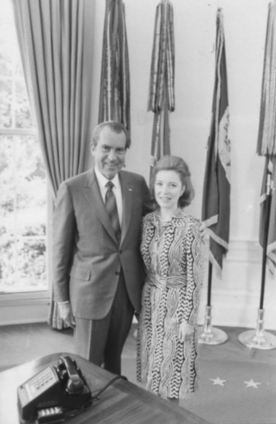 ●Frame(s): WHPO-6648-02-05, President Nixon meeting with Lucy Winchester in the Oval Office. 6/17/1971, Washington, D.C., White House, Oval Office. President Nixon, Lucy Winchester